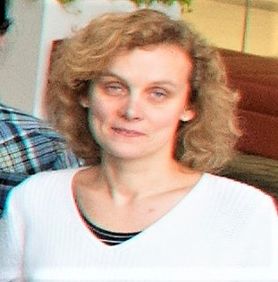 Russian-American Physicist Anastasia Volovich at the MHV Workshop of the Fermi National Accelerator Laboratory.